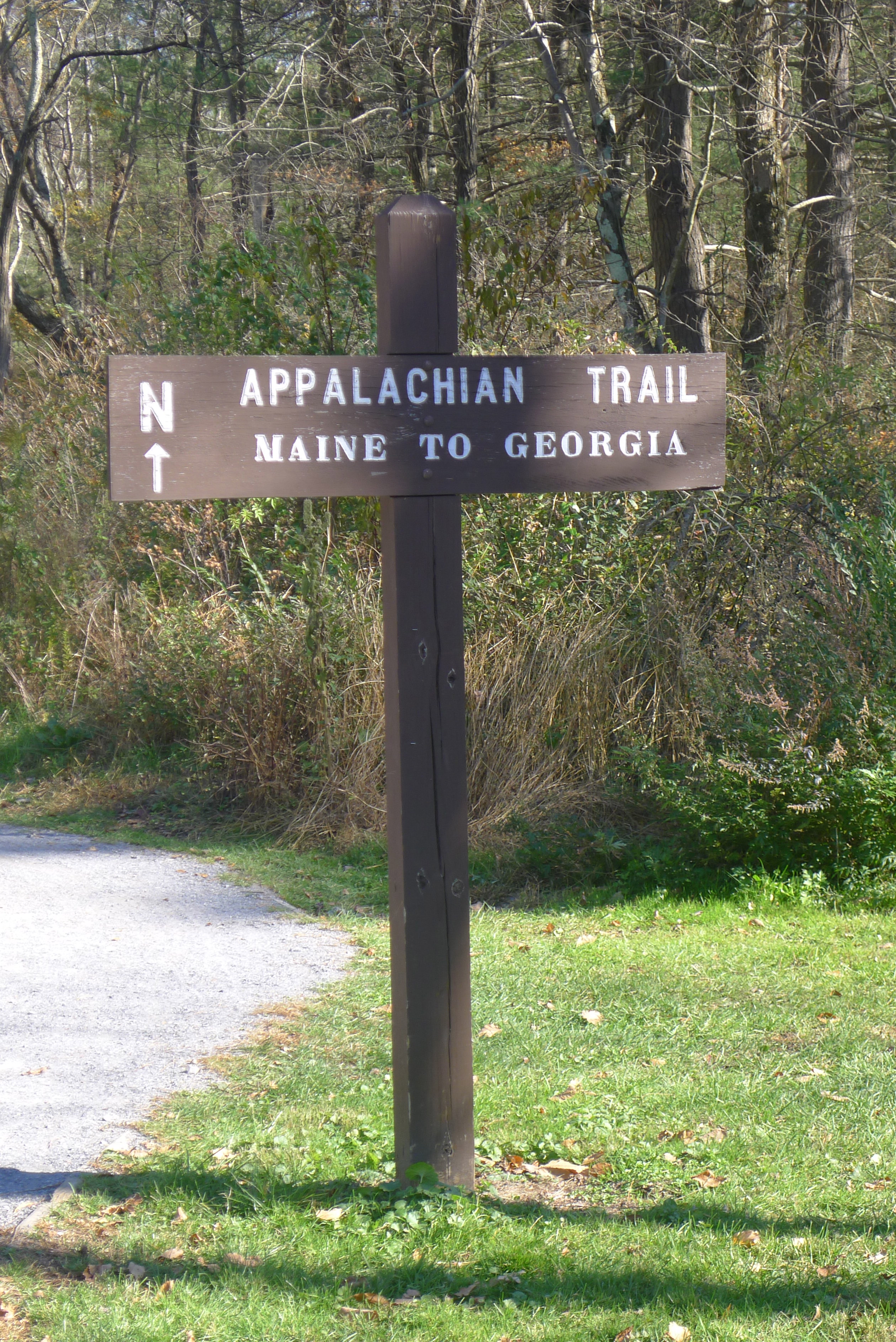 Appalachian Trail sign helps travelers find their way.